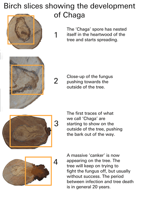 development